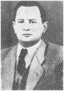 Photo of the Romanian mathematician Tiberiu Popoviciu (1906-1975) in 1930th